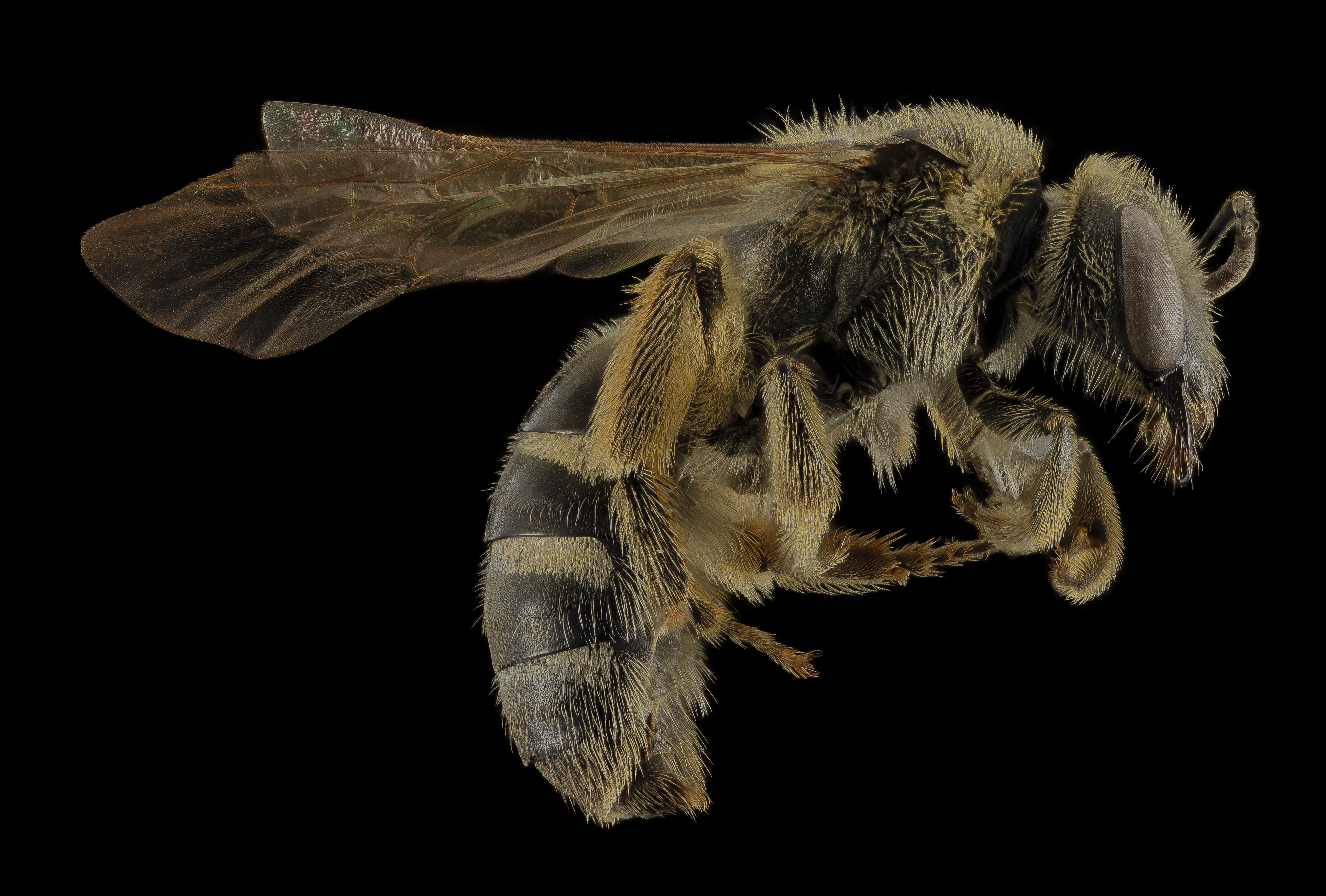 More L. coreiaceum pictures...these are from a specimen taken as part of global climate change study at Indiana Dunes National Lakeshore. Photograph by Brooke Alexander. Canon Mark II 5D, Zerene Stacker, Stackshot Sled, 65mm Canon MP-E 1-5X macro lens, Twin Macro Flash in Styrofoam Cooler, F5.0, ISO 100, Shutter Speed 200, link to a .pdf of our set up is located in our profile